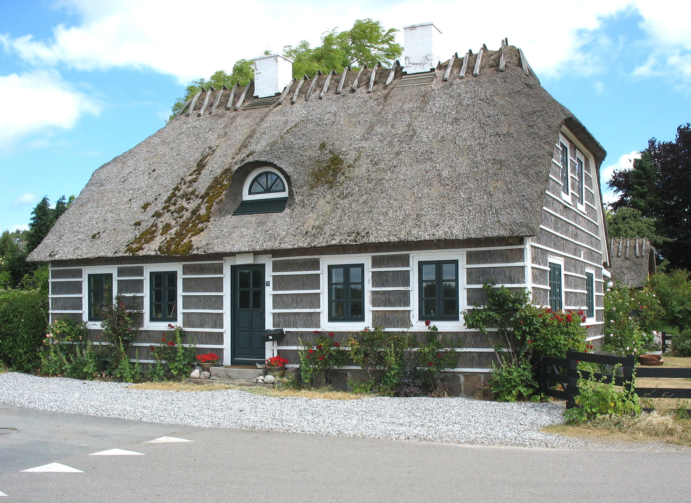 Typical house in the Danish fishing village "Hesnæs". The location is the island Falster in east Denmark.